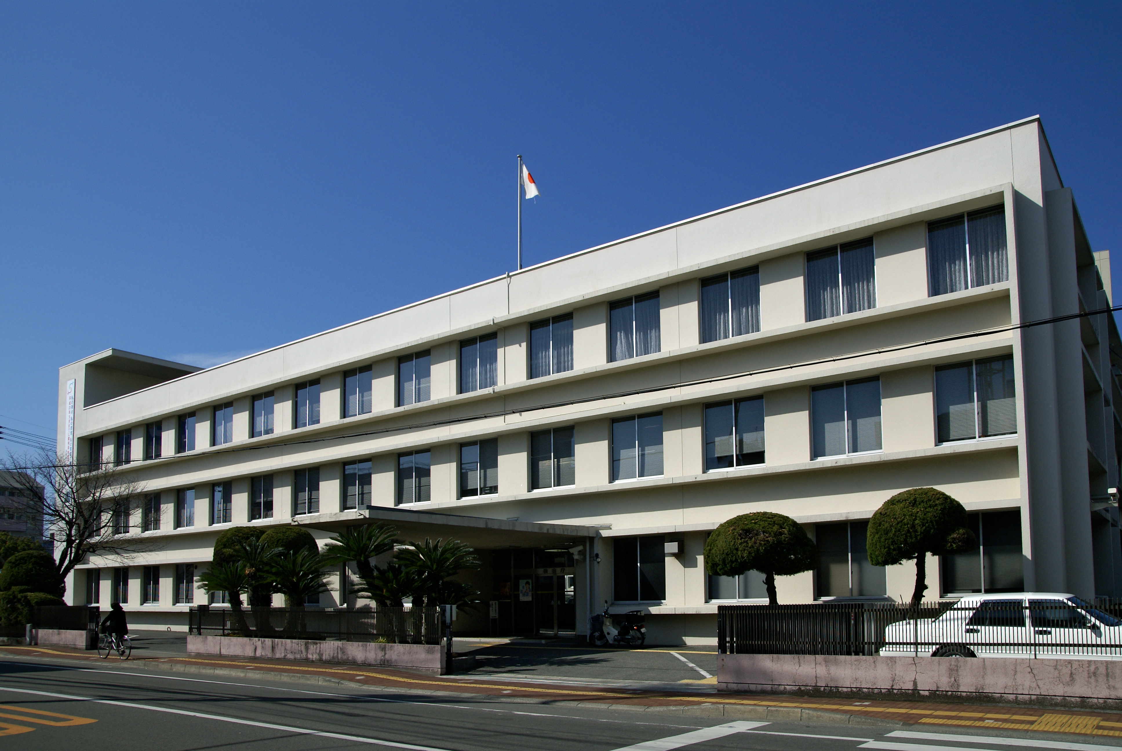 Kochi District Prosecutors in Kochi, Kochi prefecture, Japan